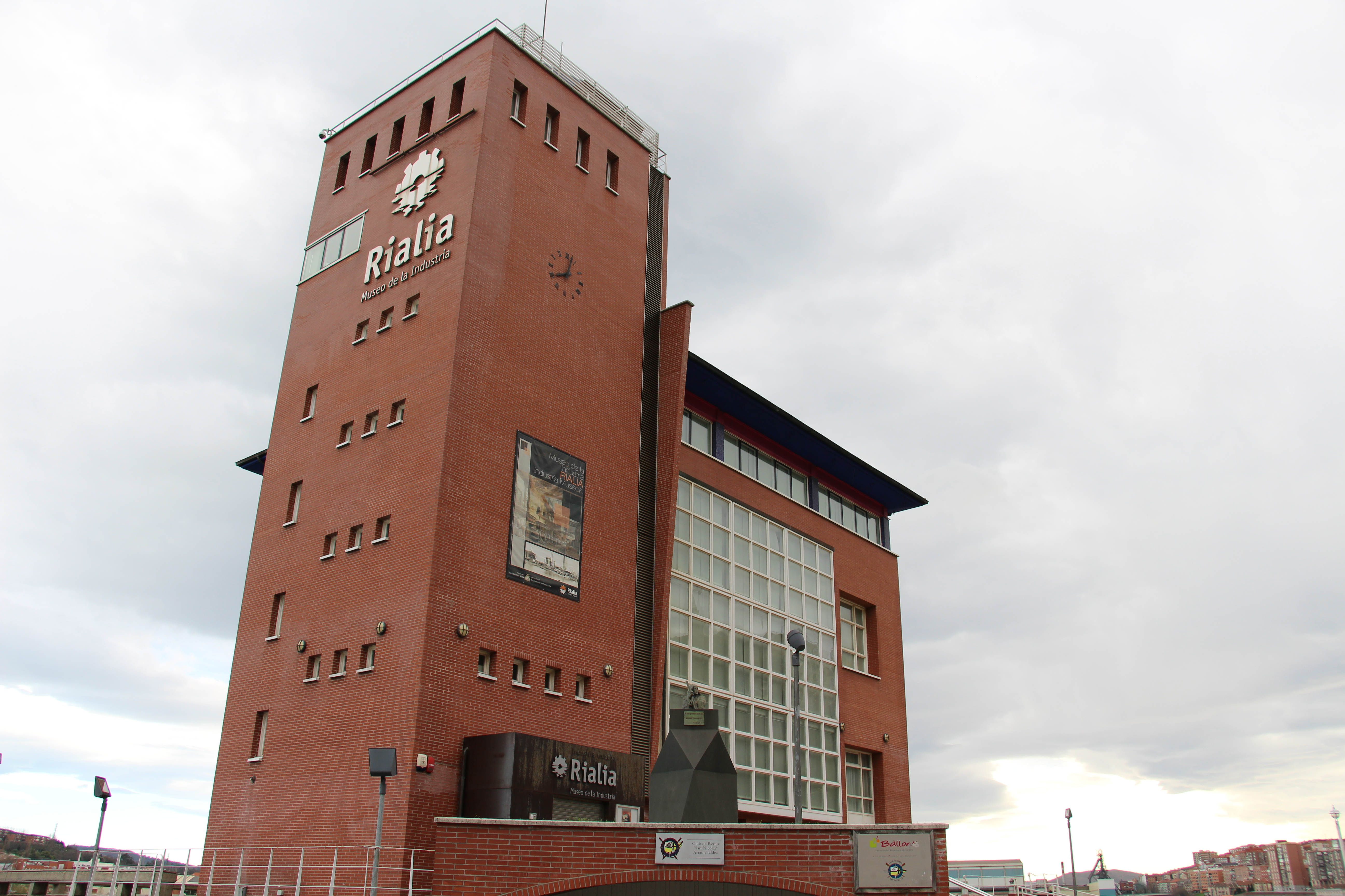 Paseo de la Canilla RIALIA, Museum of Industry, a witness to the past, present and future of the Nervion river estuary, built in 1993-2006.